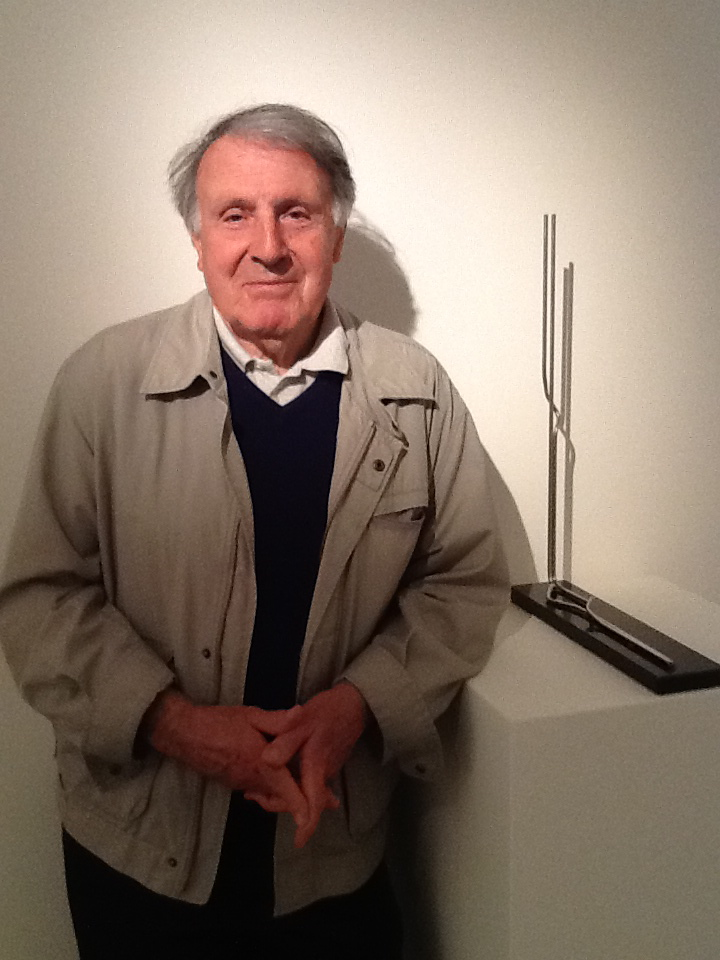 Italo Antico (2013)